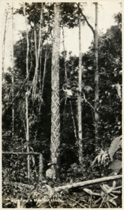 A chiclero bleeding a tree for chicle in Belize. This image is part of the Colonial Office photographic collection held at The National Archives (UK), Catalogue Reference: CO 1069/254.